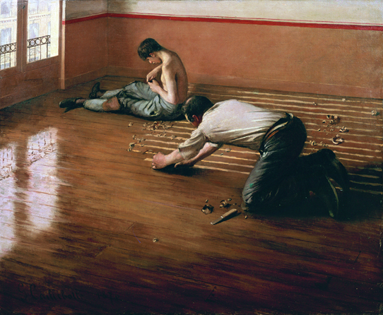 Painting by Gustave Caillebotte, (French impressionist, 1848–1894) entitled The Floor Scrapers, 1876. Oil on canvas, 31 1/2 x 39 3/8 in. (80 x 100 cm). Private collection